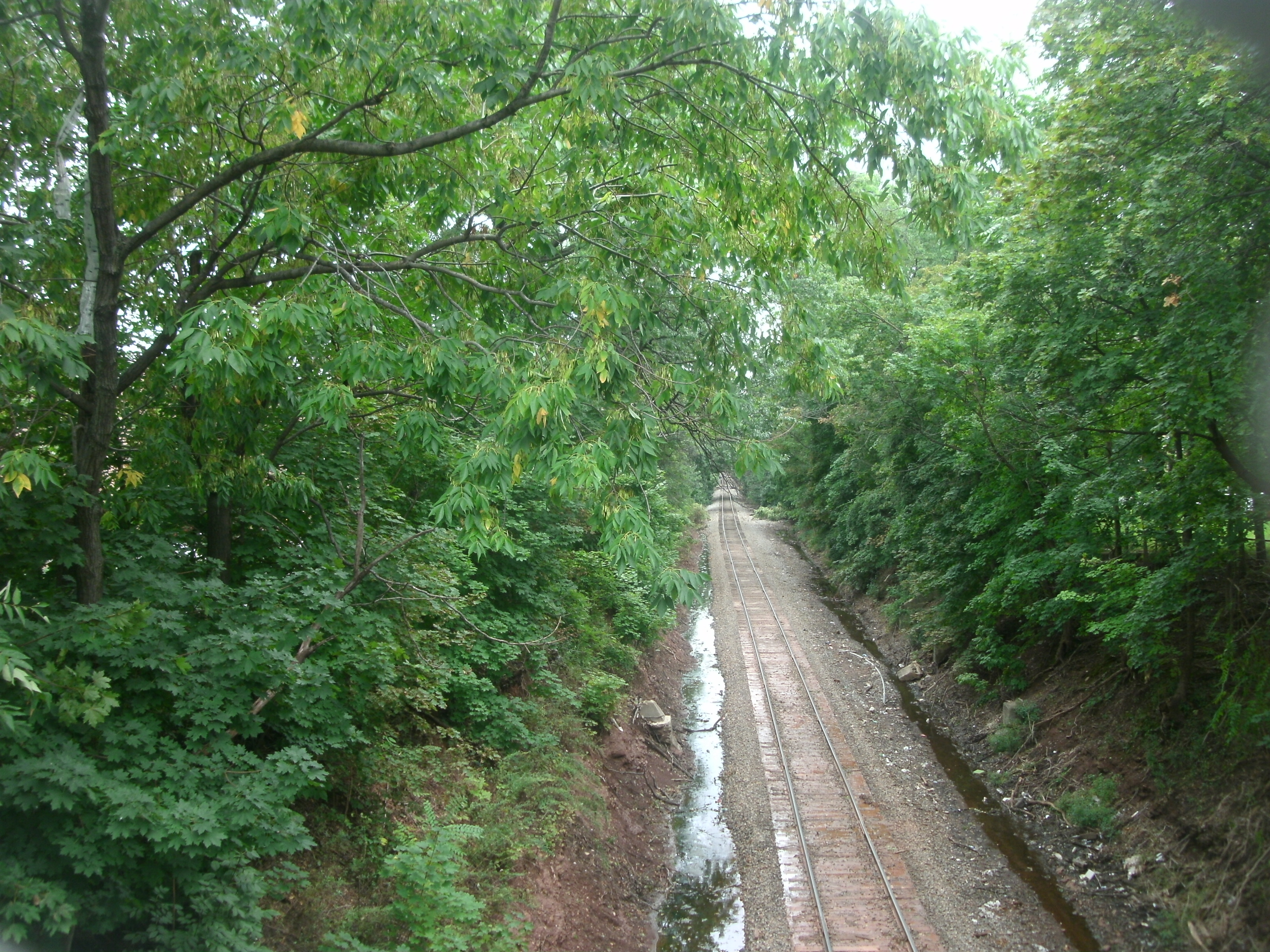 The former platform view from Prospect Avenue in Hackensack, New Jersey of the namesake Prospect Avenue station for the New York, Susquehanna and Western Railroad, as seen in September 2011.